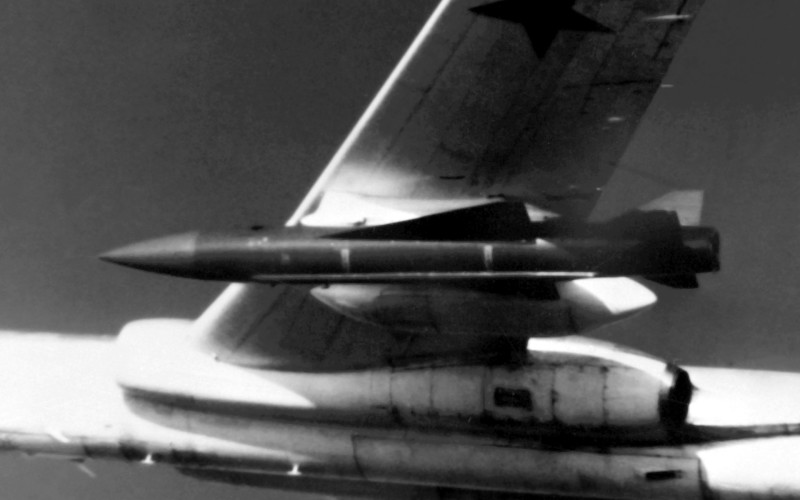 A Raduga KSR-5 under the left ving of a Tupolev TU-16 Badger